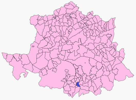 Zarza de Montánchez